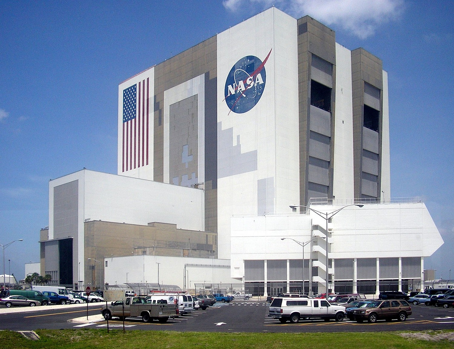 NASA's Vehicle Assembly Building as seen on July 6, 2005.